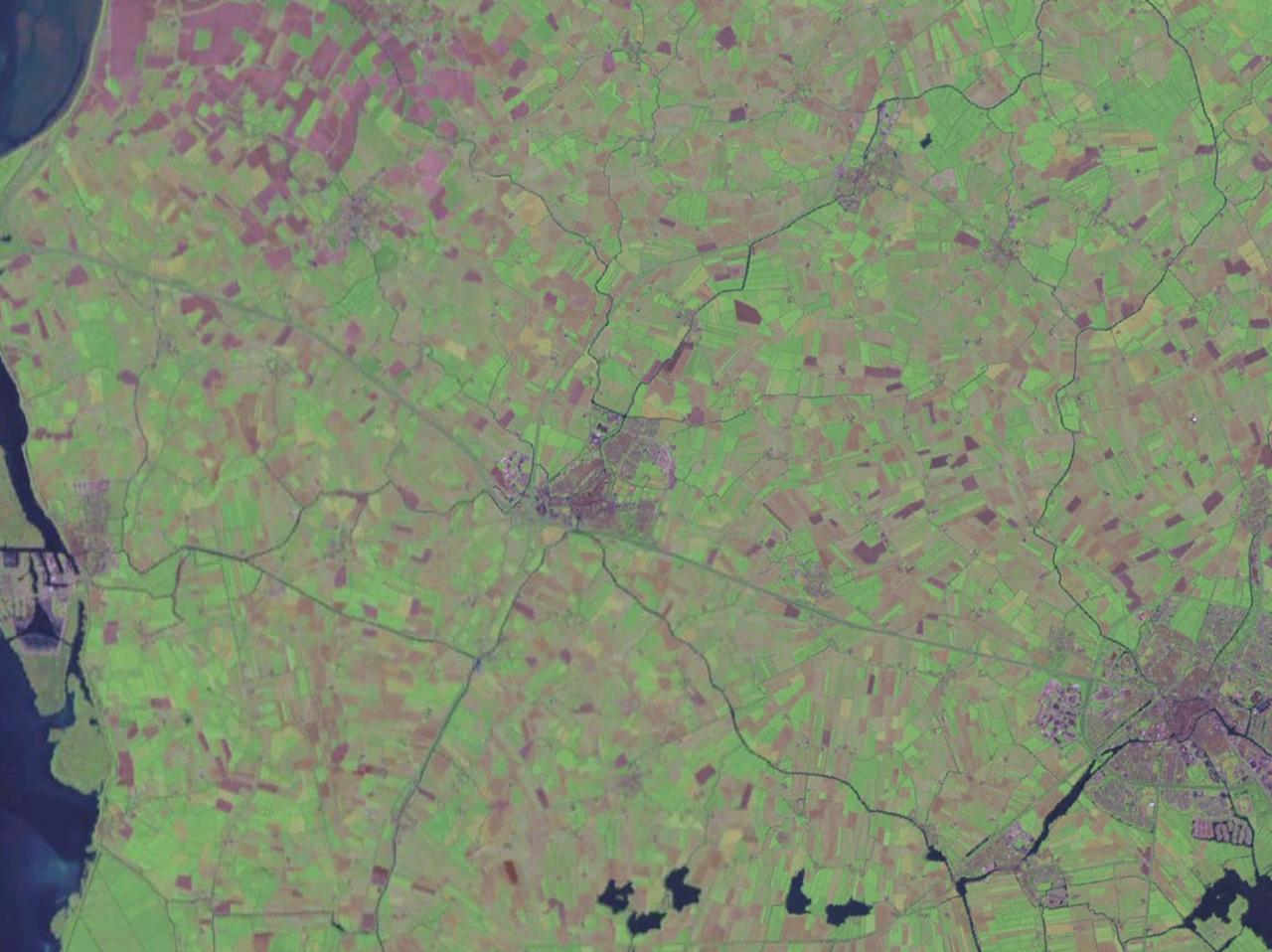 Franeker, Friesland. Satellite view.